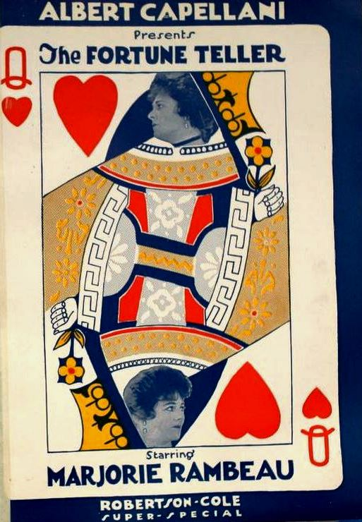 Advertisement for the American drama film The Fortune Teller (1920) with Marjorie Rambeau, on page 4115 of the May 15, 1920 Motion Picture News.